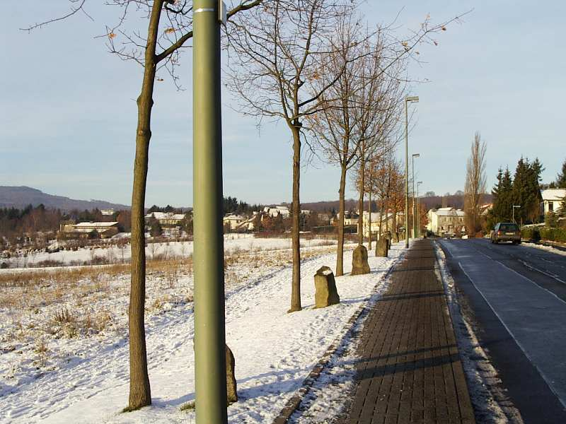 "7000 Oaks" by Joseph Beuys. Uploaded from the German Wikipedia.